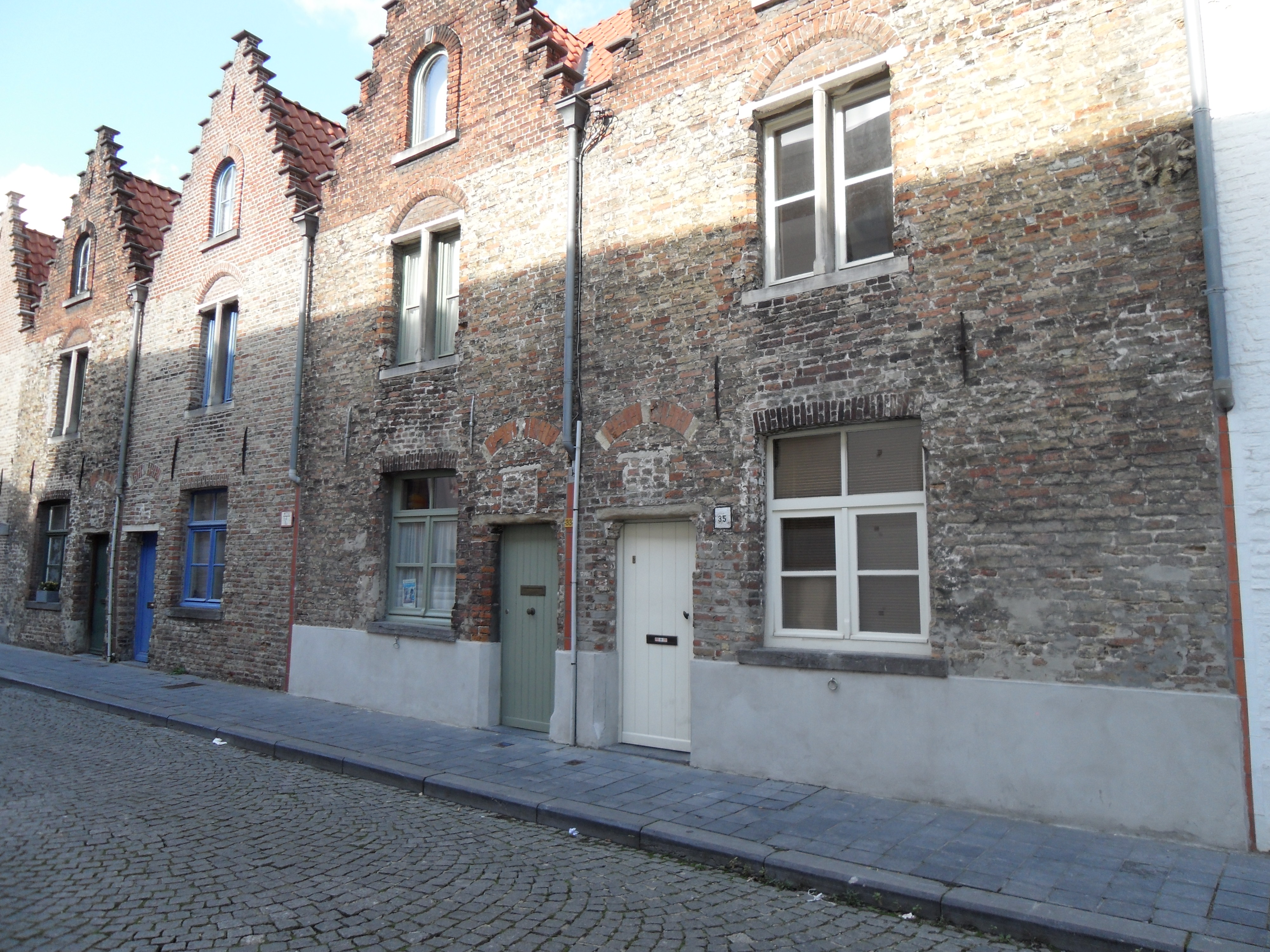 Oude Gentweg